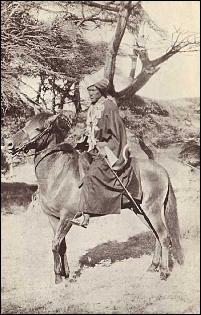 Major Risaldar Musa Haji Farah Igare